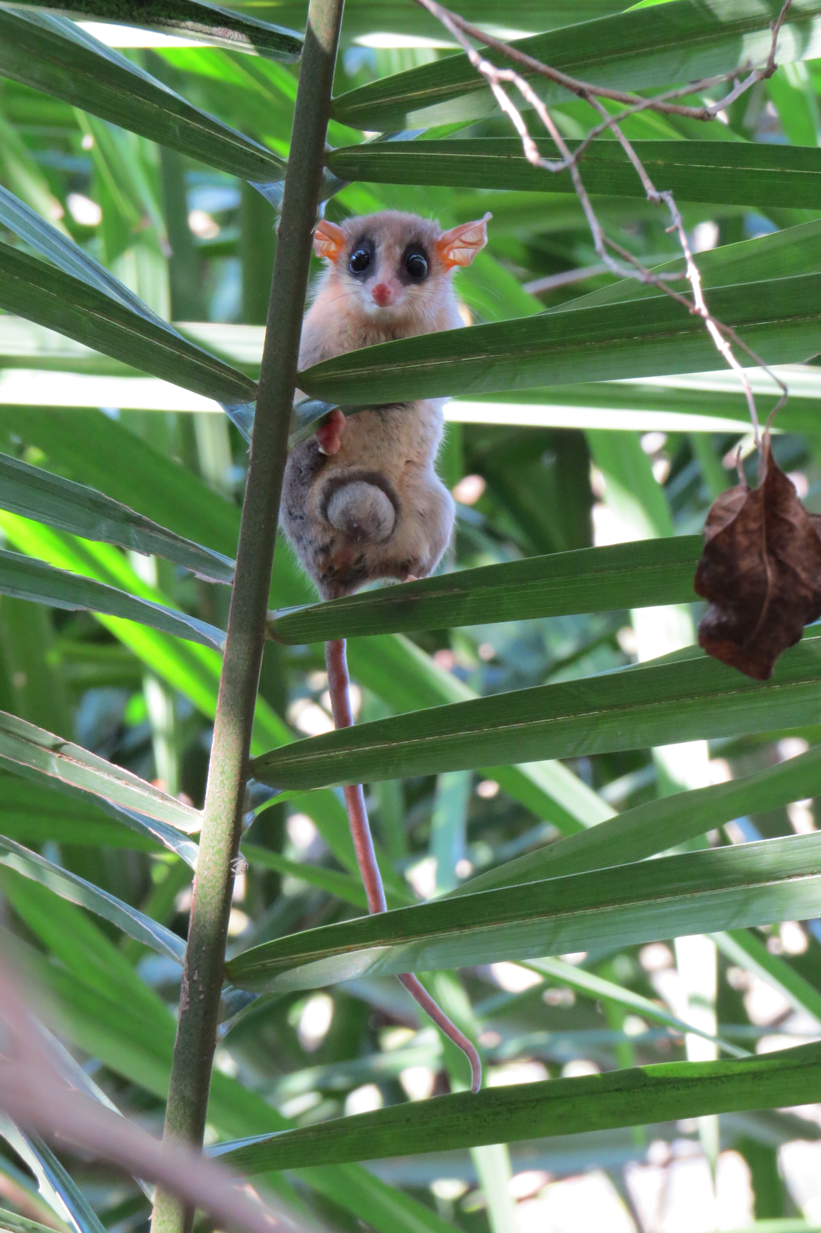 Gracilinanus agilis. Agile gracile opossum. Cuíca-graciosa. Clinging to acuri palm.